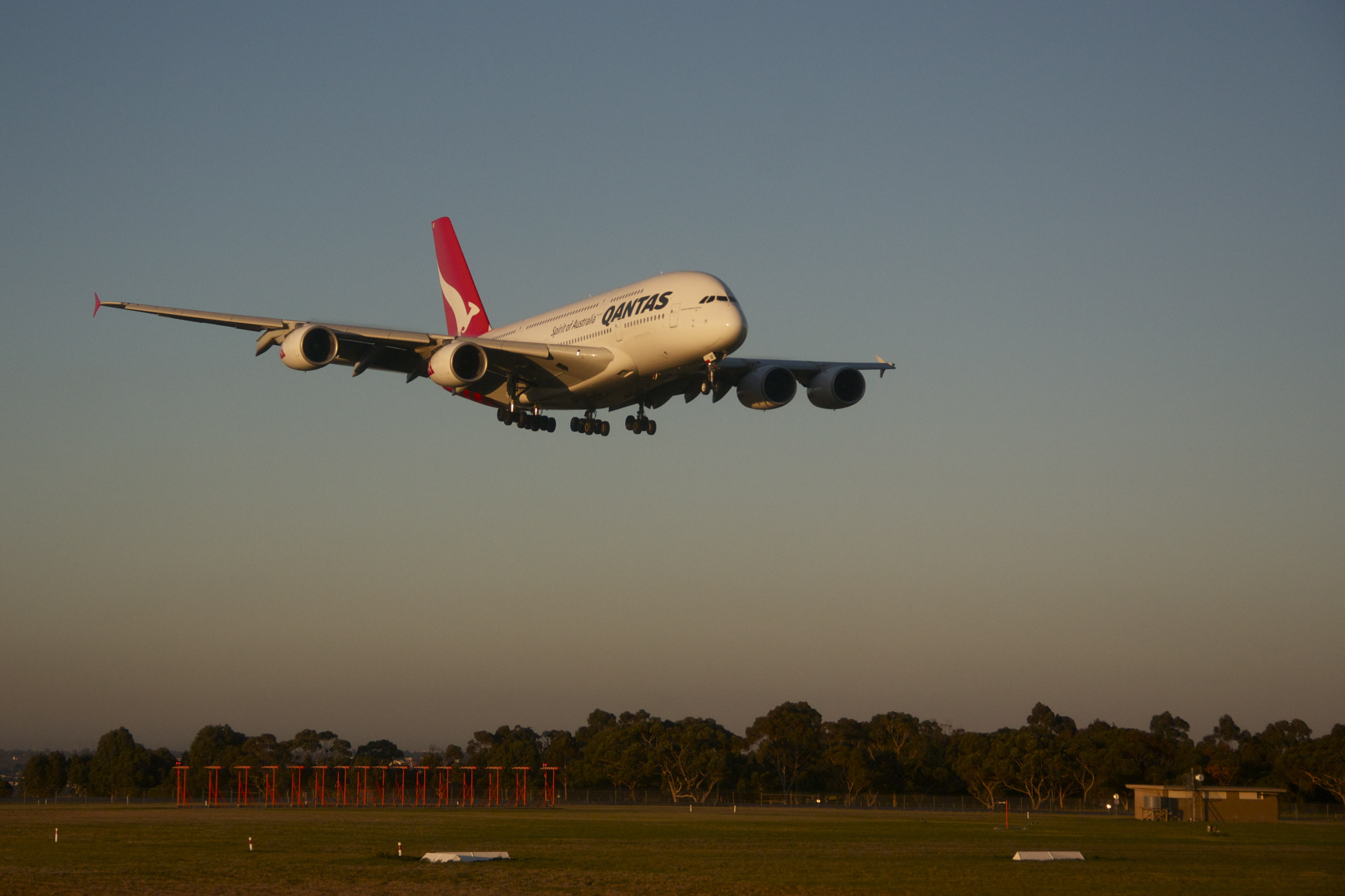 A QANTAS A380 lands at Melbourne Airport on the morning of Saturday 25 June 2011. Taken from on board Virgin Australia flight DJ817, on the taxiway.